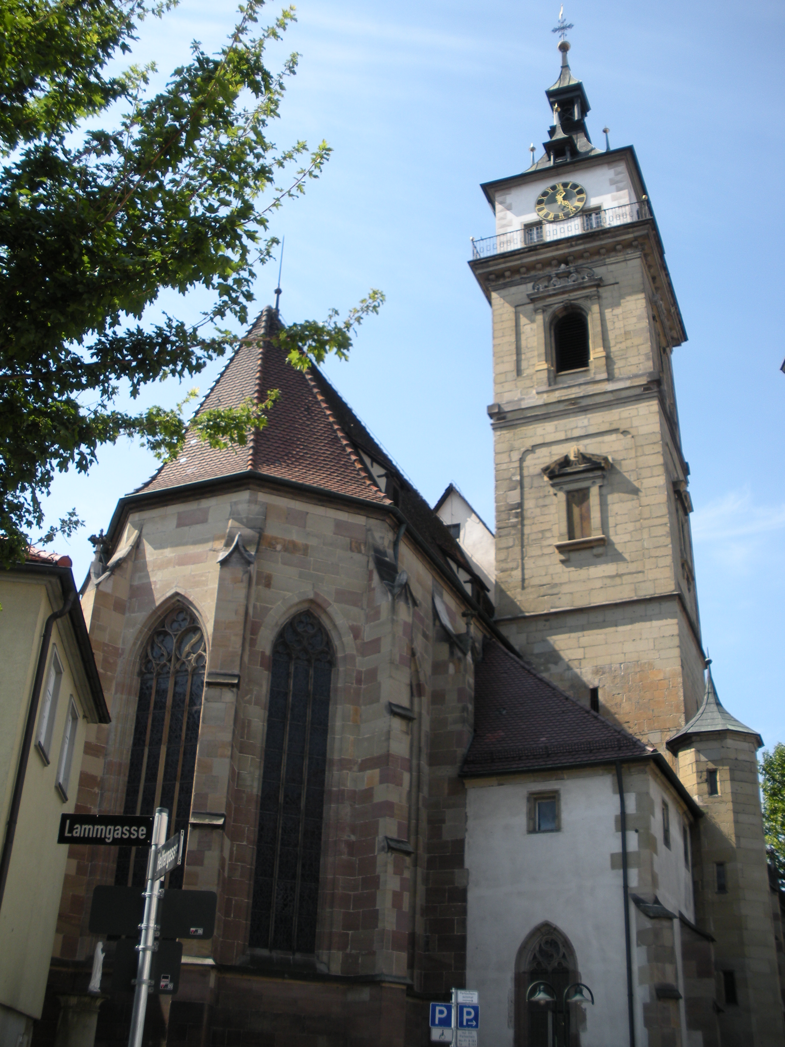 Protestant City-Church of Stuttgart-Bad Cannstatt